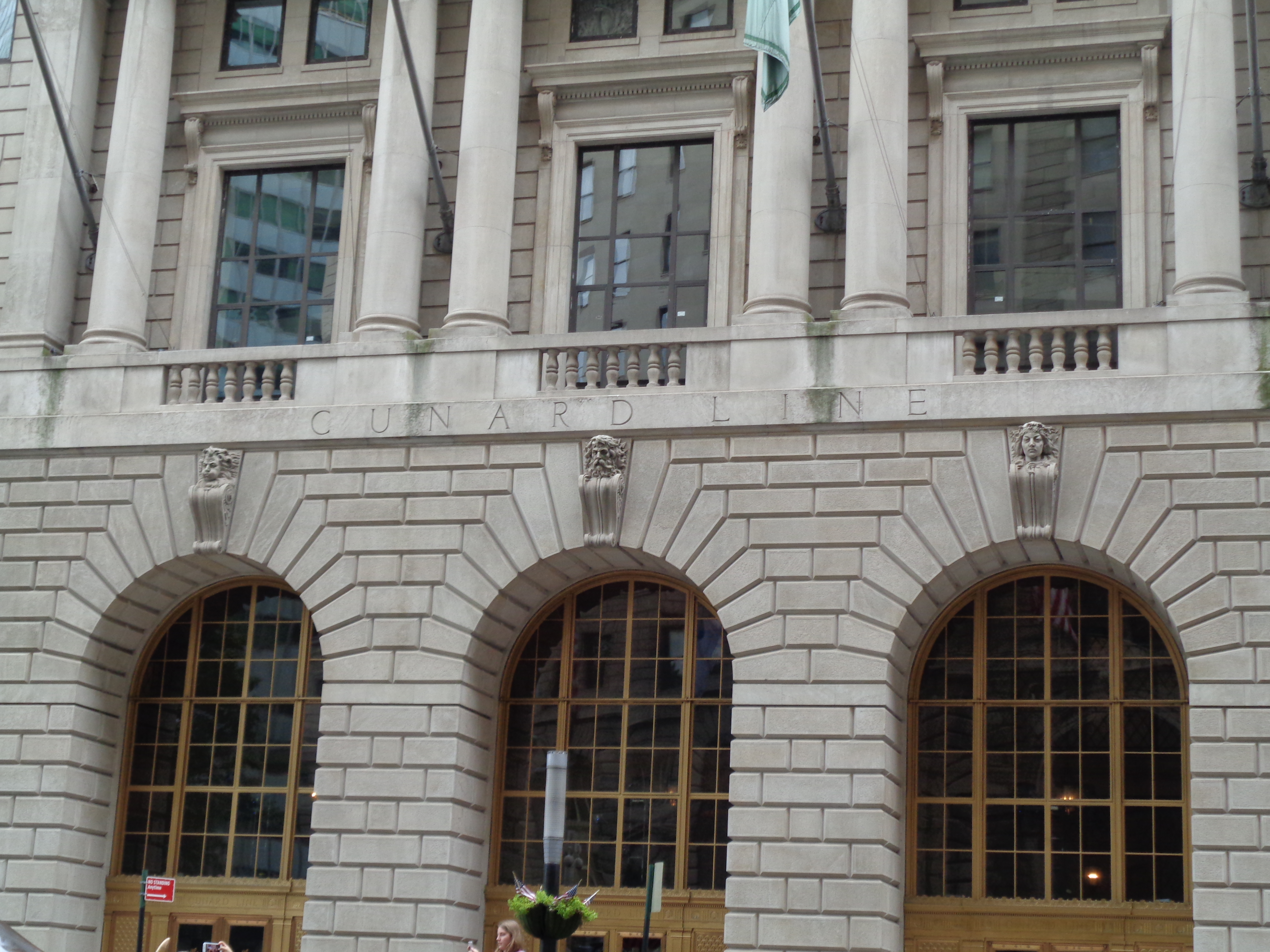 Looking at the Cunard Building in the Financial District, Manhattan.